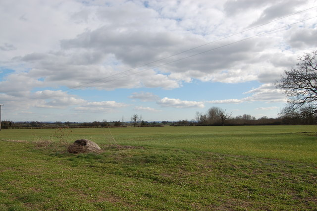 Pastureland near Berrow A peaceful and tranquil agricultural scene now but between 1941 and 1945 this flat area of Worcestershire was home to the "Number 5 Satellite Landing Ground" or SLG Berrow. These were not proper aerodromes with paved runways but more secluded spots with grass landing strips. Replacement frontline aircraft could be stored or prepared hidden safely away in the natural landscape from the prying eyes of the Luftwaffe. SLG Berrow was also used for training glider pilots based at RAF Shobdon flying 'Hotspur' gliders.